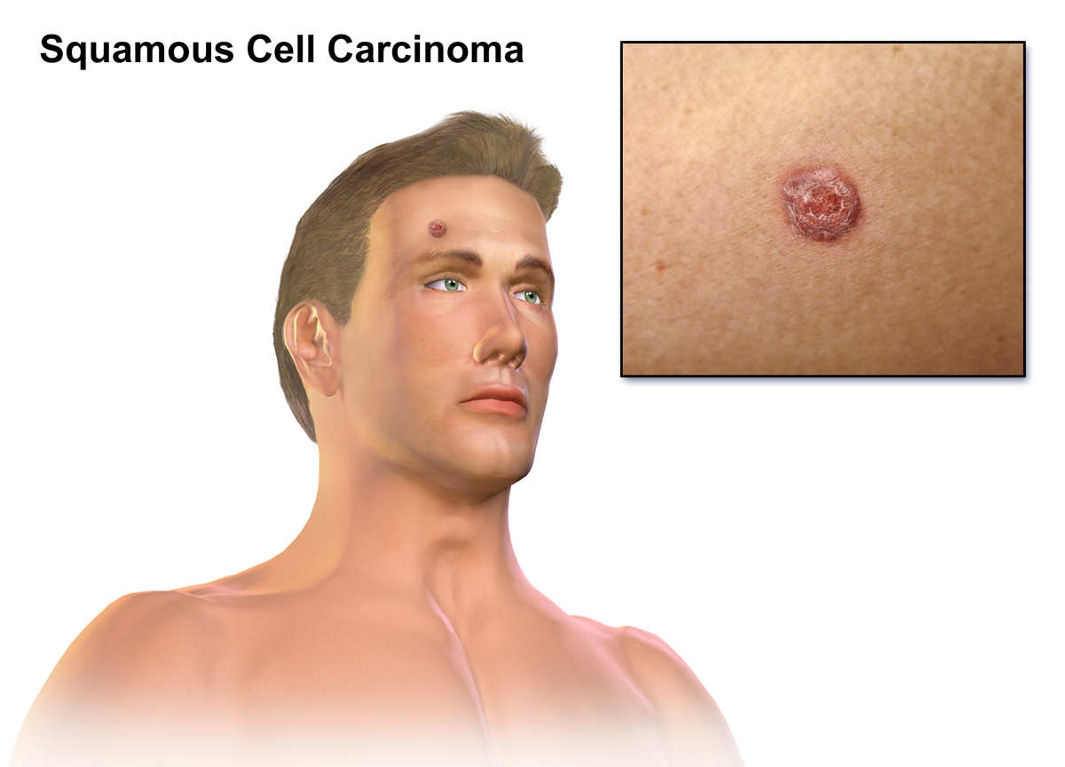 Squamous Cell Carcinoma. See a full animation of this medical topic.